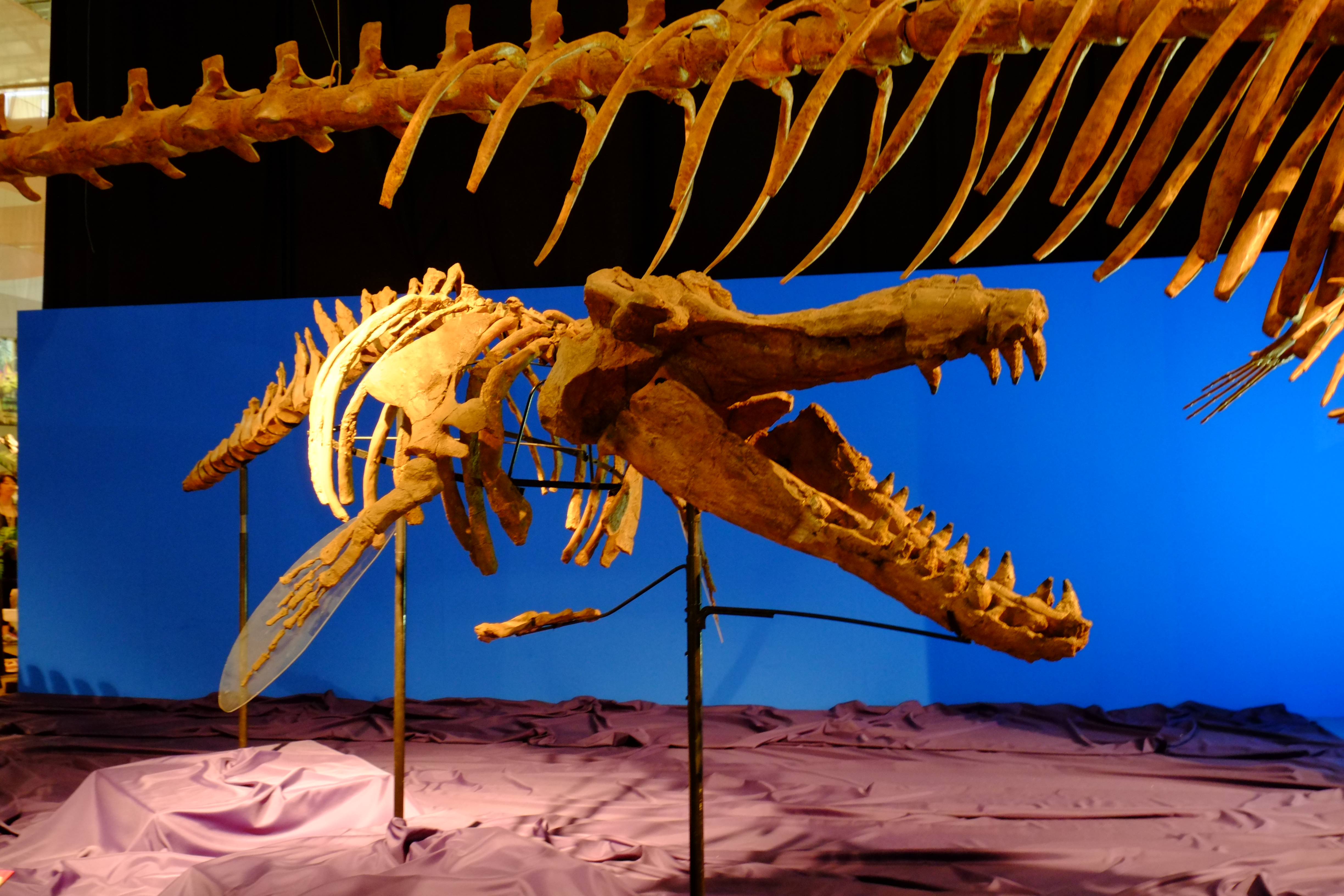 古代の日本の関東の海では生態系の頂点だったとか。 In the ancient seas, Brygmophyseter was a top predator.